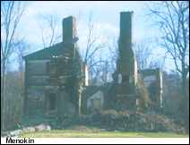 Menokin, home of Francis Lee, signer of Declaration of Independence.